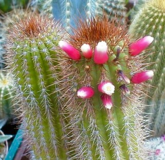 Plant from holotype locality, Monte Azul, Minas Gerais, Brasil